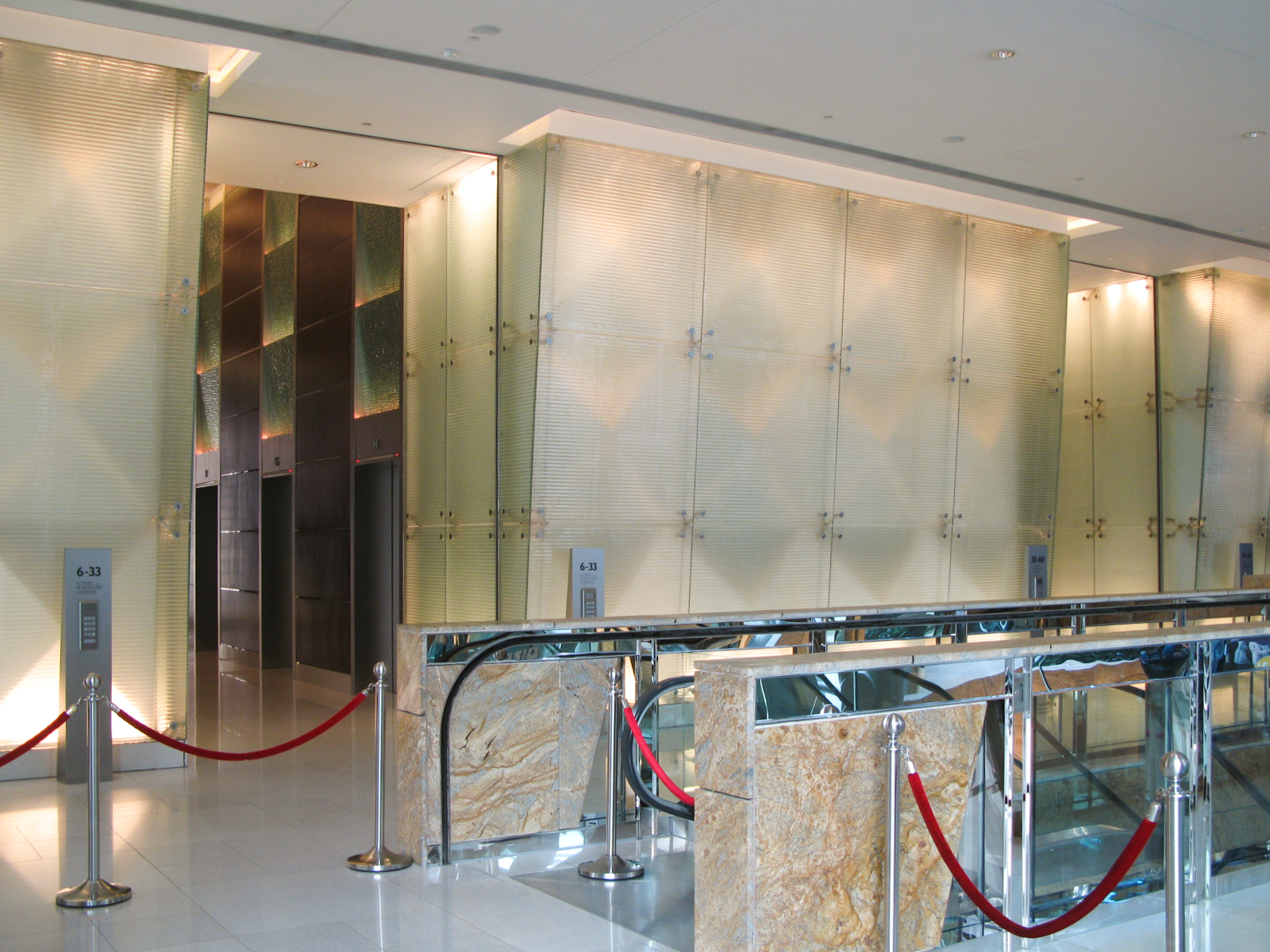 Langham Place Office Tower Lobby